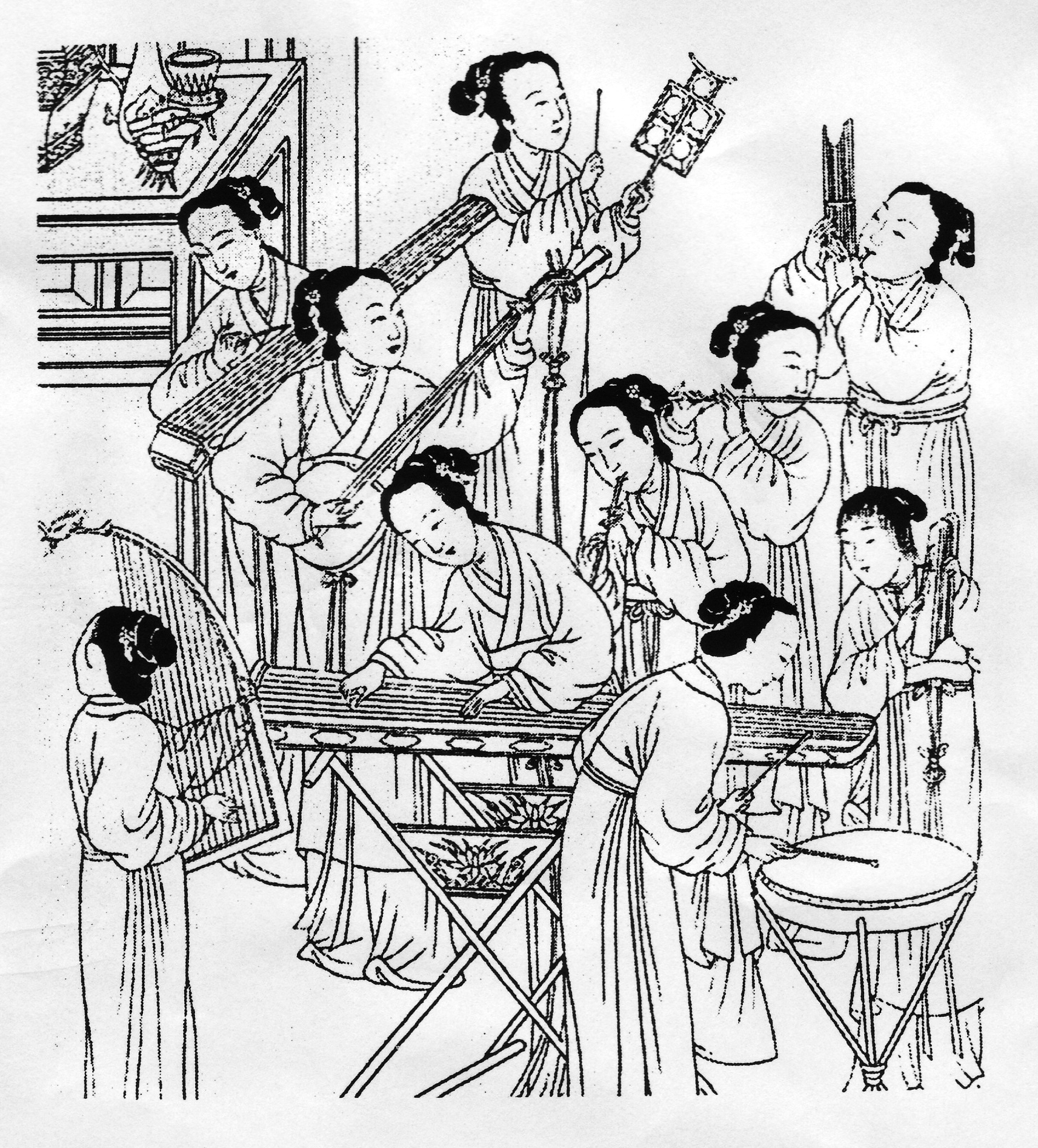 An ancient Chinese dynastic engraving of an all-female ensemble of traditional instrumentalists. The ten musicians are playing instruments as follows: Top left: probably a yaqin or yazheng (bowed zither) Top center: 5-gong yunluo (set of tuned gongs in a frame) Top right: sheng (mouth organ) Center, left: probably a sanxian Center, second from left: probably a guqin or guzheng Center, second from right: dizi (transverse flute) Center, third from right: probably a guan (oboe) or dongxiao (vertical flute) Center right: paiban (clapper made from several flat pieces of wood) Bottom left: konghou (harp) Bottom right: probably a pian gu (drum) The image is reproduced in Yi Cunguo 易存国, Zhongguo Guqin Yishu 中国古琴艺术 (The Art of Chinese Guqin), Beijing, Renmin Yinyue Chubanshe 人民音乐出版社, 2003, where it bears the caption "仕女演乐图" ("Drawing of women of the court performing music"). It was a taken from a Ming dynasty edition of Pipa Ji 琵琶記 (The Story of the Lute), Li Zhuowu Ping Ben Pipa Ji 李卓吾評本琵琶記 (Li Zhuowu Critizes Pipa Ji), dated 1573—1619.